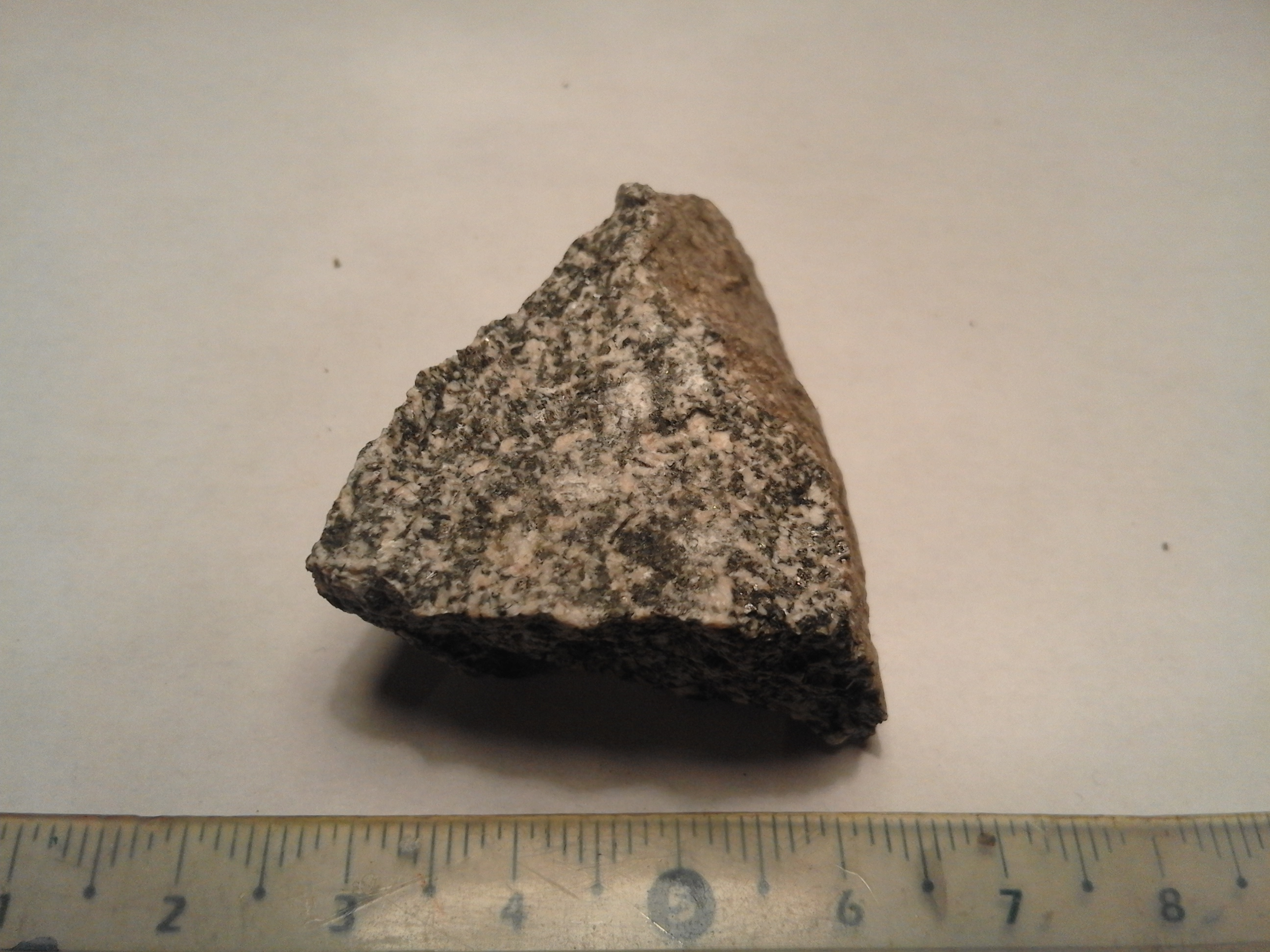 Kersantite (Brittany, France)